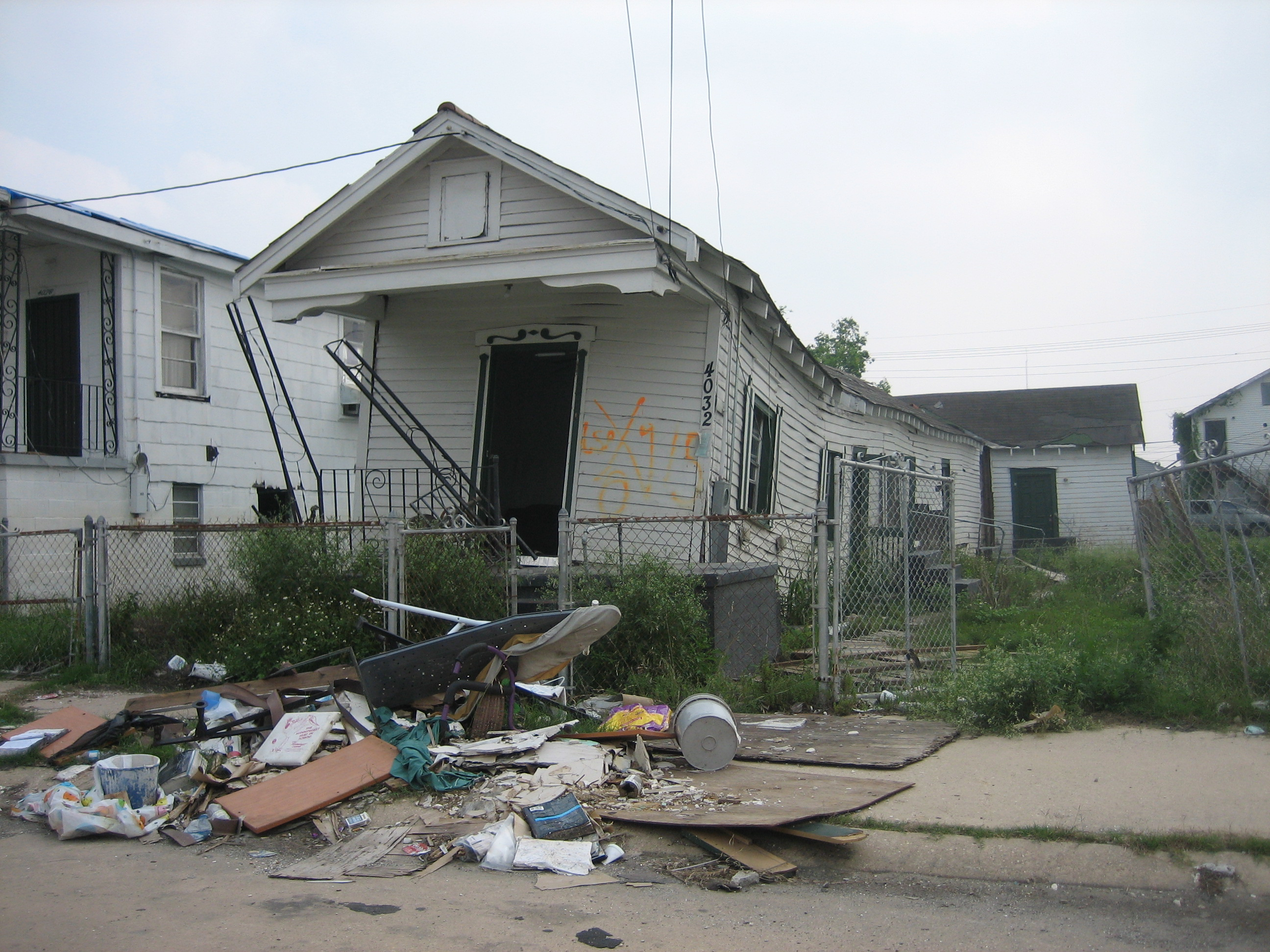 New Orleans after Hurricane Katrina: formerly flooded Mid City section of the city Photo by Infrogmation